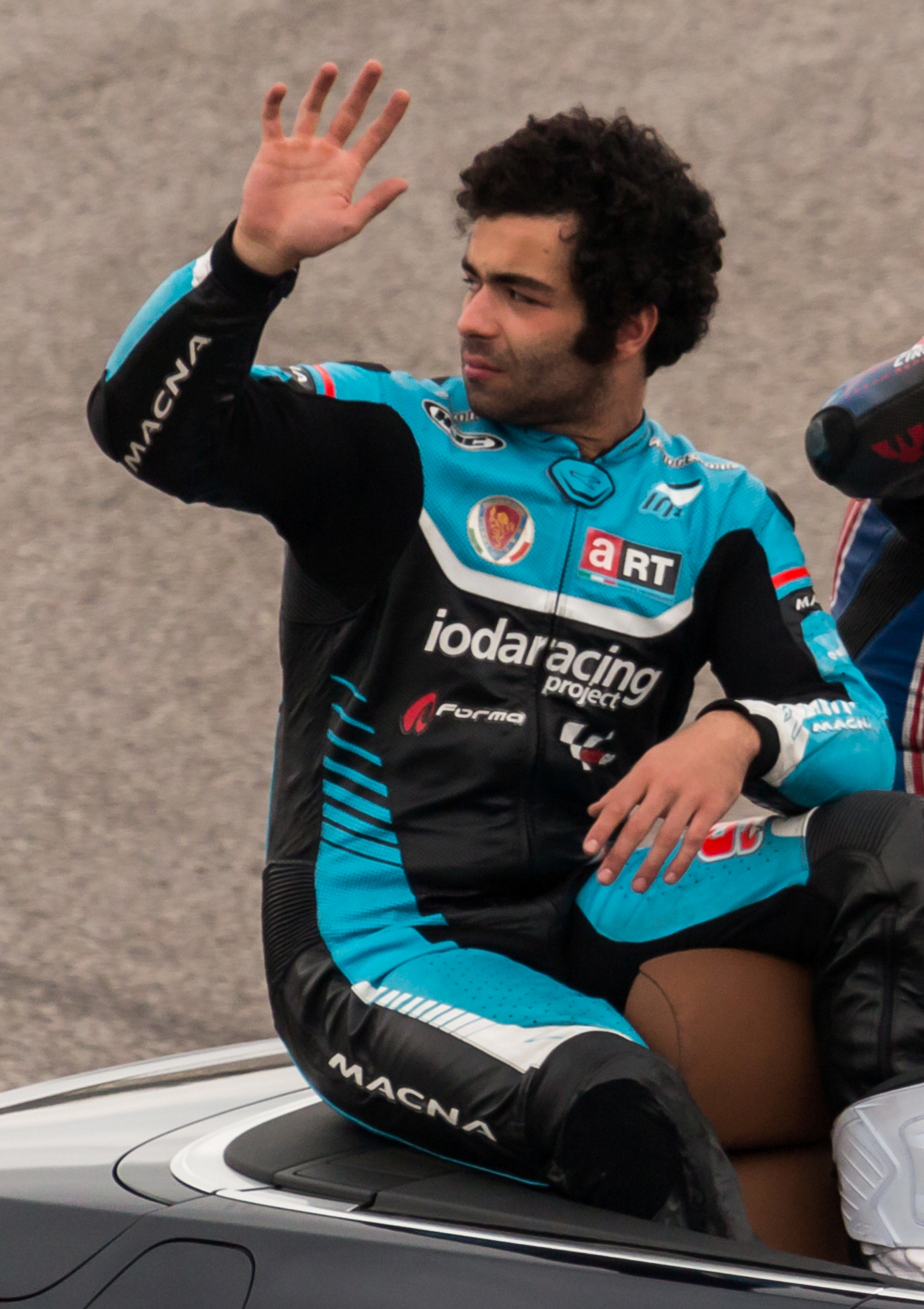 Italian motorcycle road racer Danilo Petrucci at the 2014 Grand Prix of the Americas.